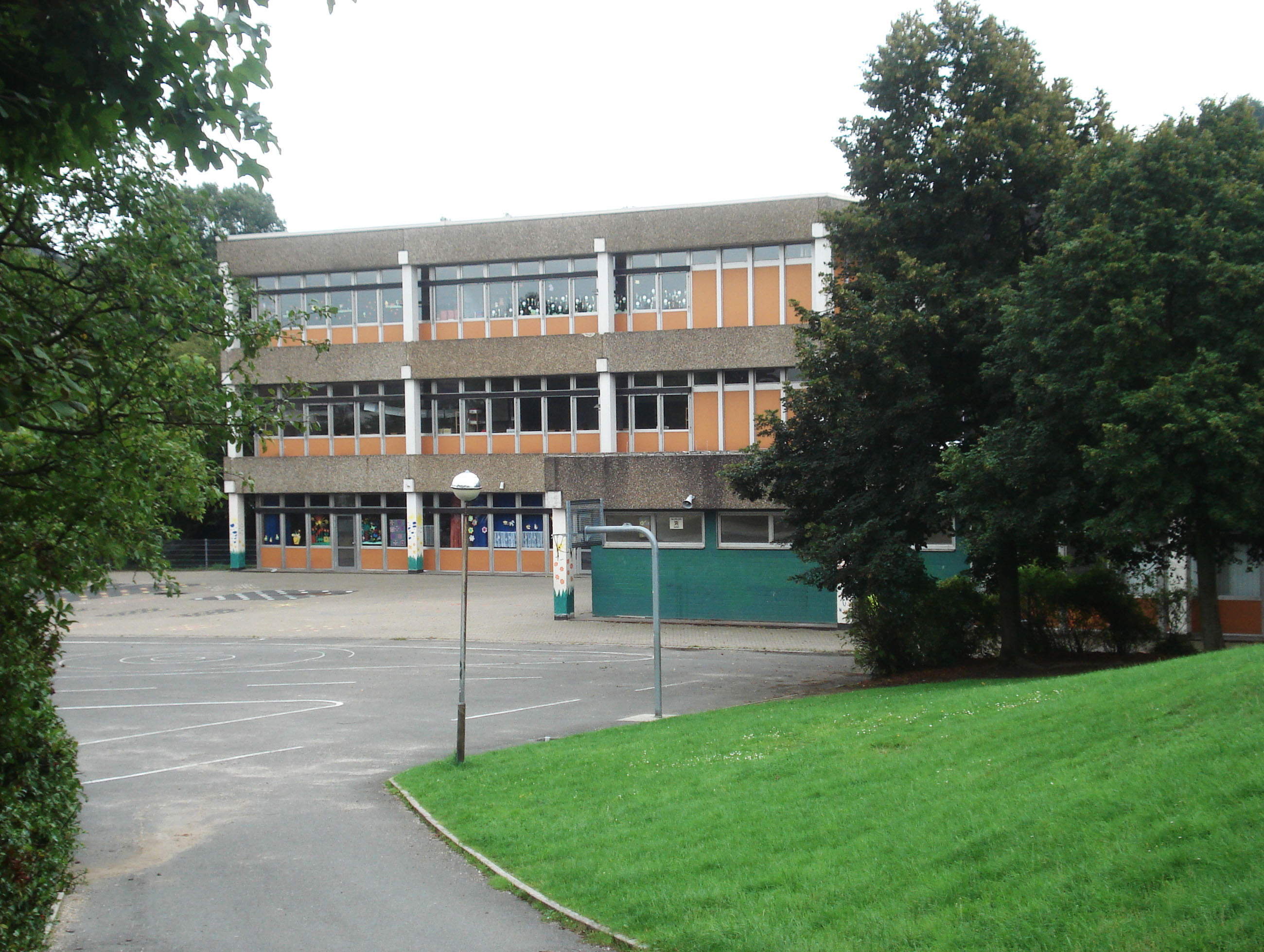 Hagen-Eppenhausen, Primary school